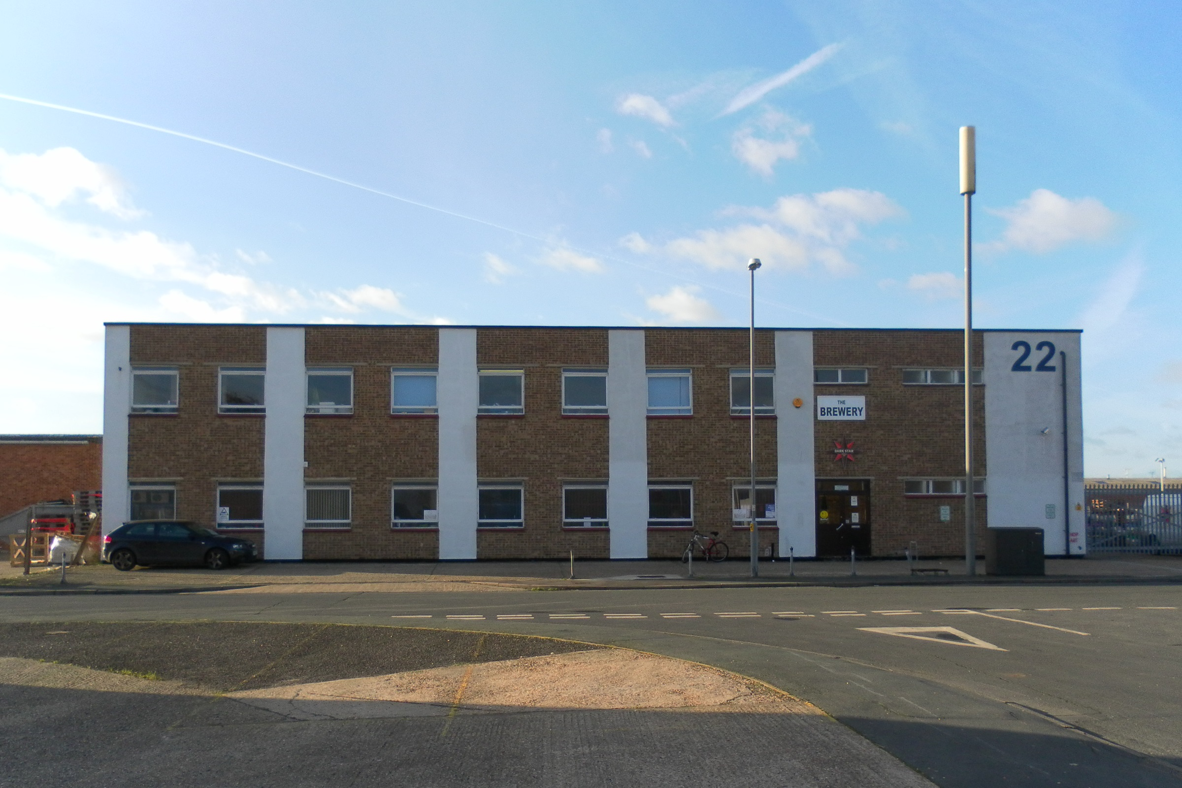 Dark Star Brewery, Star Road Industrial Estate, Partridge Green, West Sussex, England. Opened in 2010 after the brewery moved here from nearby Ansty.